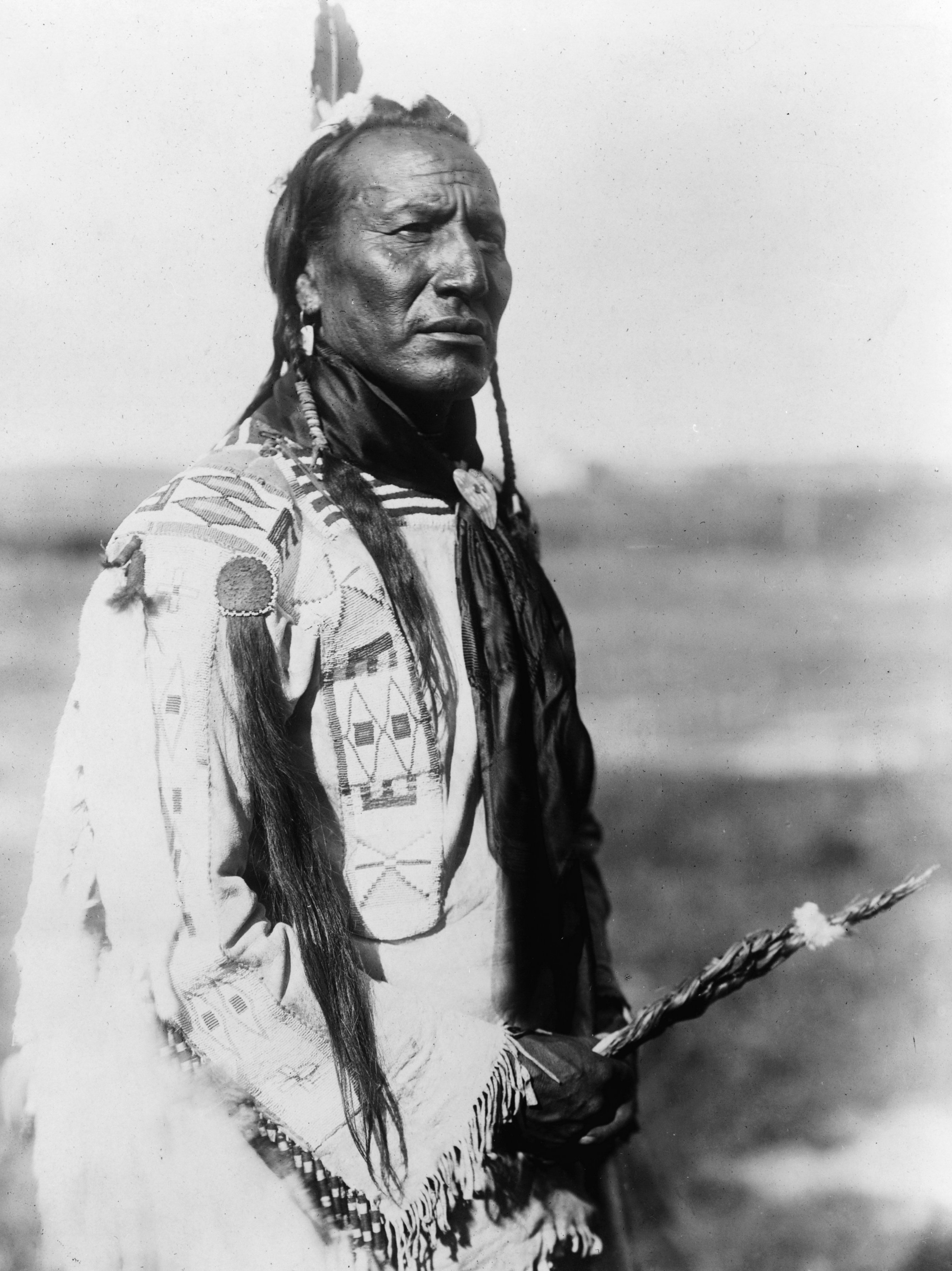 Native American Peigan Big Mouth Spring, three-quarter length portrait, standing, facing right, braids, one feather, beaded buckskin shirt, decorated scalp lock on right shoulder, black silk neckerchief.